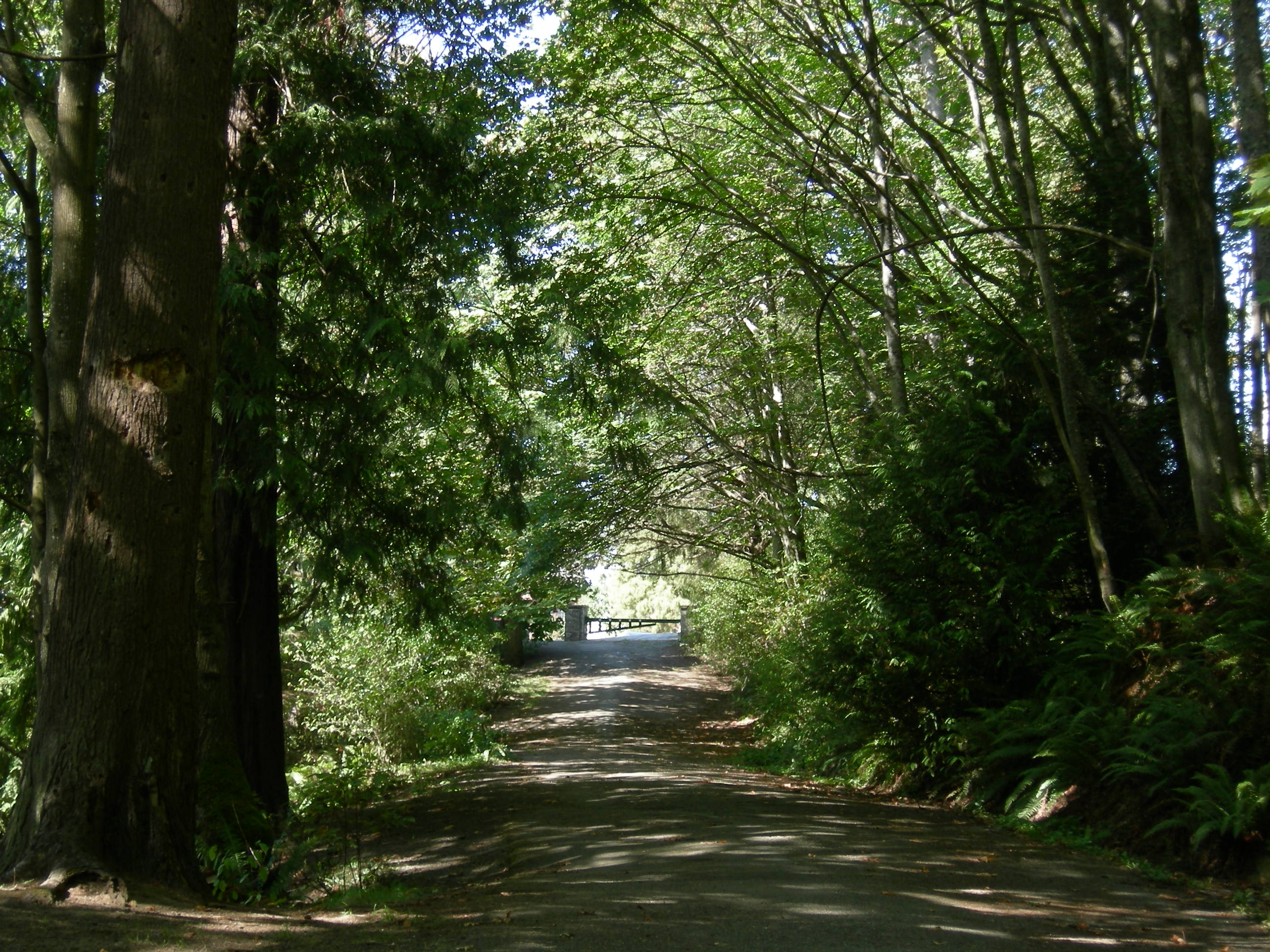 Although Schmitz Park, West Seattle, Seattle, Washington, USA is mainly a forest preserve, there is a service road that comes in about 100 yards (100 meters); it is normally closed by a gate (which can be seen in the distance in this picture, which looks out of the park).